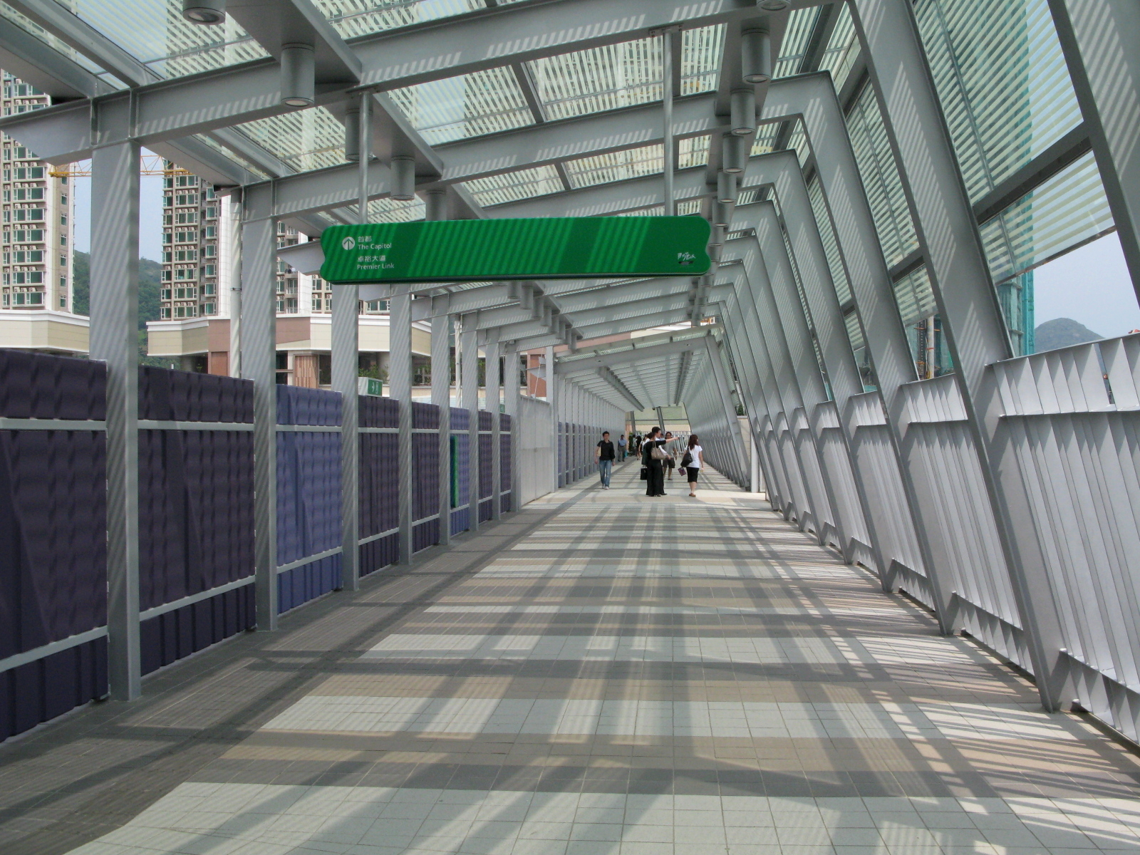 HK LOHAS Park Temporary Access 日出康城